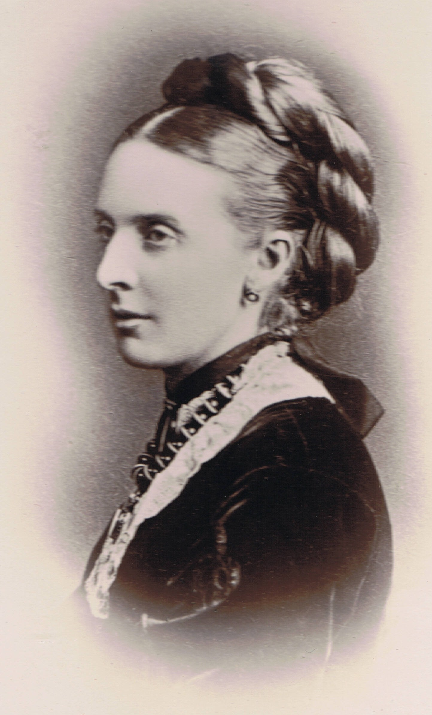 Amelia Frances Harriet Tower (died 1885), wife to John, (6th) Count de Salis-Soglio.